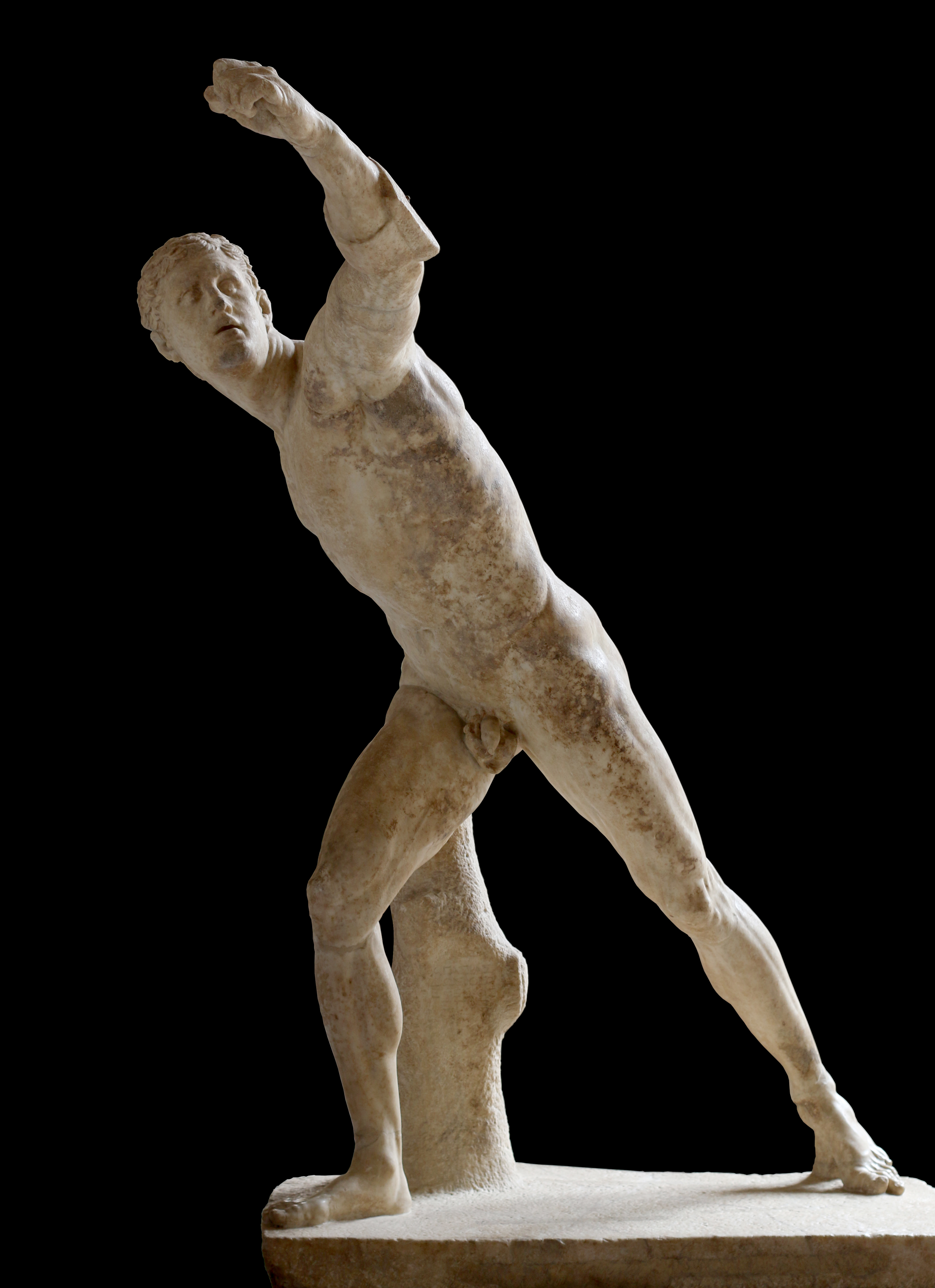 Borghese Gladiator. Copy (ca. 100 AD) of an original of the 3rd century BC, found in Anzio, Latium.